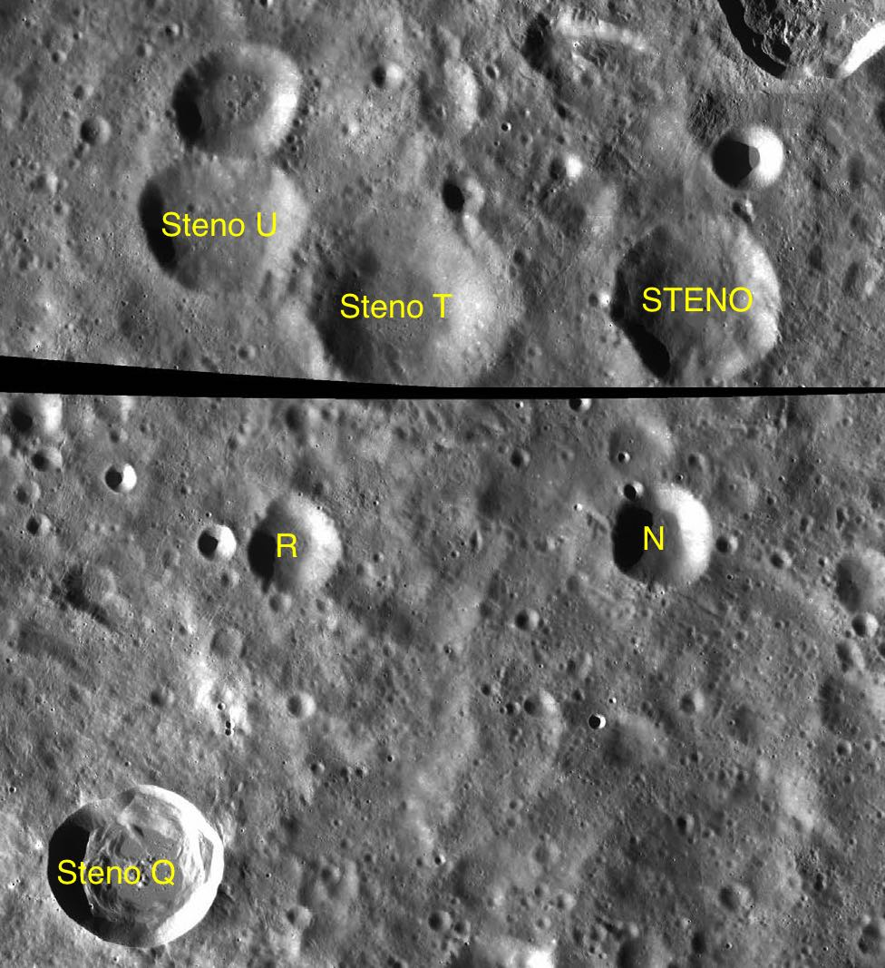 Parts of the charts LAC-32, LAC-49 used for the presentation.